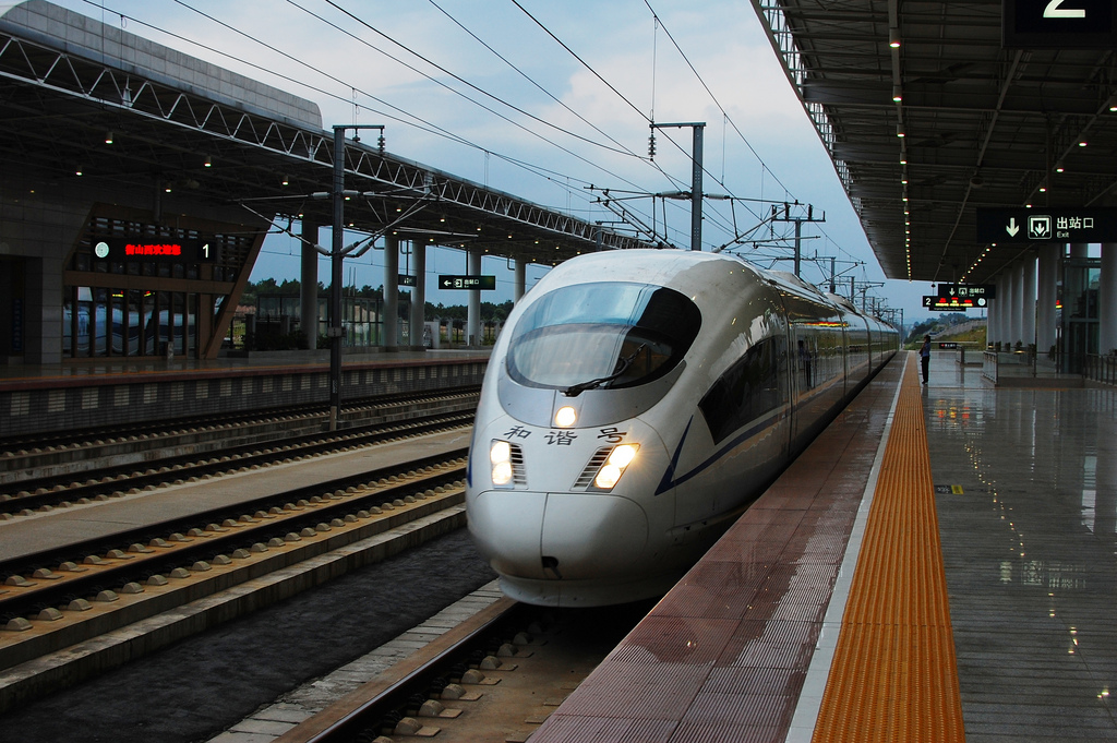 The trains from Wuhan to Guangzhou are among the fastest in the world.